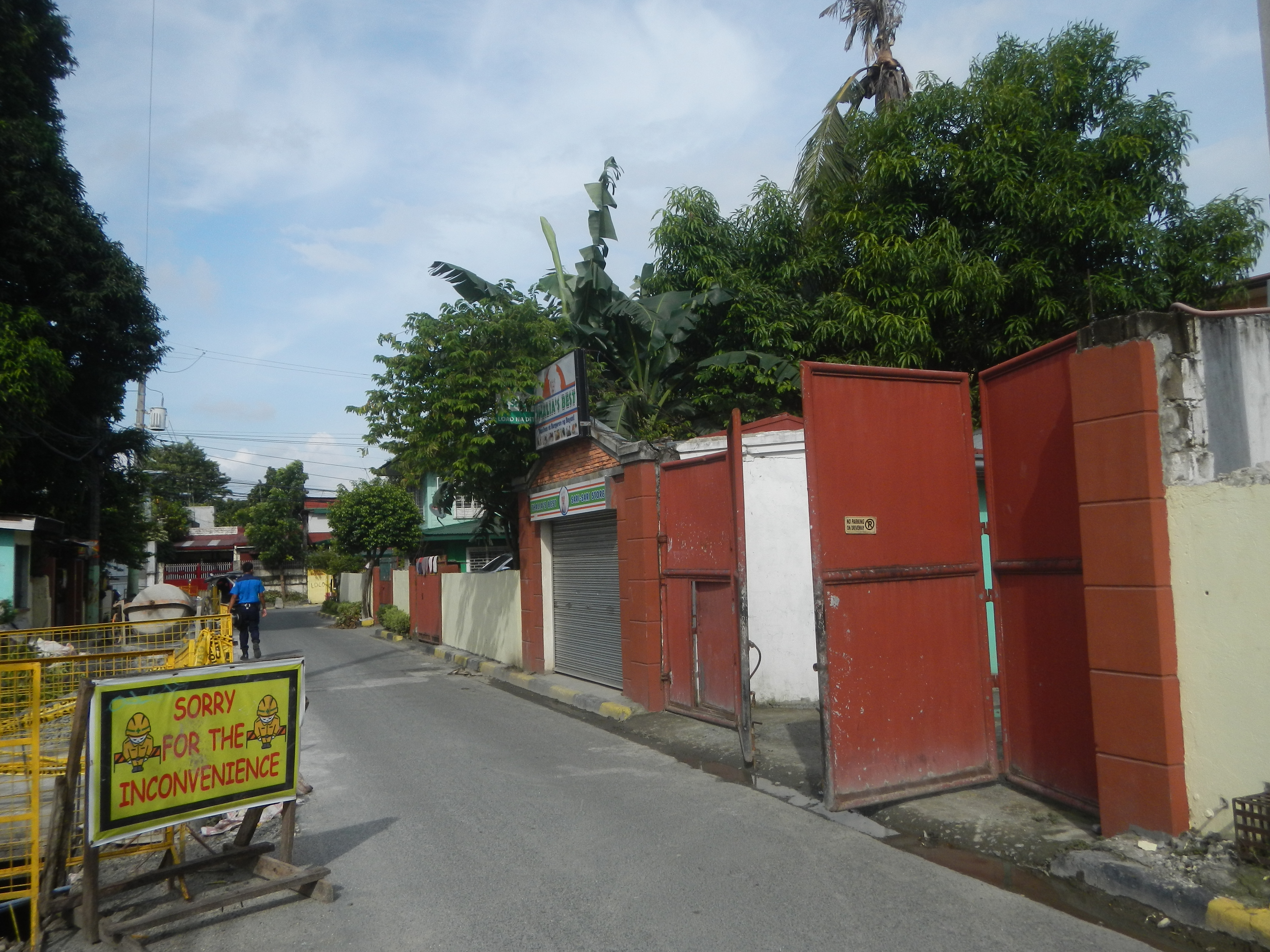 Santo Rosario Kanluran, Pateros, Metro Manila; Tabacalera, Pateros, Metro Manila List of barangays of Metro Manila, Legislative district of Pateros–Taguig Barangays Tabacalera 14°32'58"N 121°4'4"E Aguho 14°32'35"N 121°3'50"E Santo Rosario Silangan 14°32'58"N 121°4'25"E Santo Rosario Kanluran 14°33'9"N 121°4'9"E Pateros, Metro Manila Metro Manila Pateros Bridge 14°32'45"N 121°3'54"E B. Morcilla Street 14°32'41"N 121°4'1"E (Note: Judge Florentino Floro, the owner, to repeat, Donor Florentino Floro of all these photos Judge Floro hereby donate gratuitously, freely and unconditionally all these photos to and for Wikimedia Commons, exclusively, for public use of the public domain, and again without any condition whatsoever).